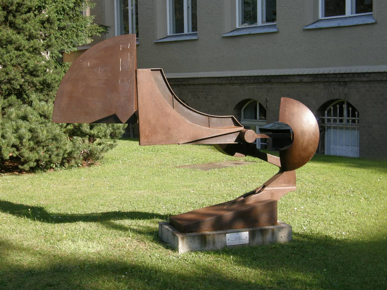 Sculpture "Eisentirade" by Klaus Duschat. Skulpturengarten AVK, Rubensstr. 125, Berlin (Schöneberg)